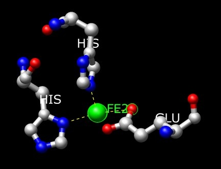 myselft